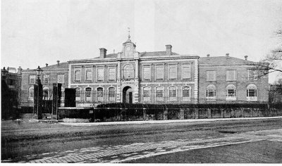 The old Ordnance Survey offices in London Road, Southampton which were destroyed by enemy bombing in 1940. A similar copy of this image is at [1] which identifies the "creator" as "unknown".